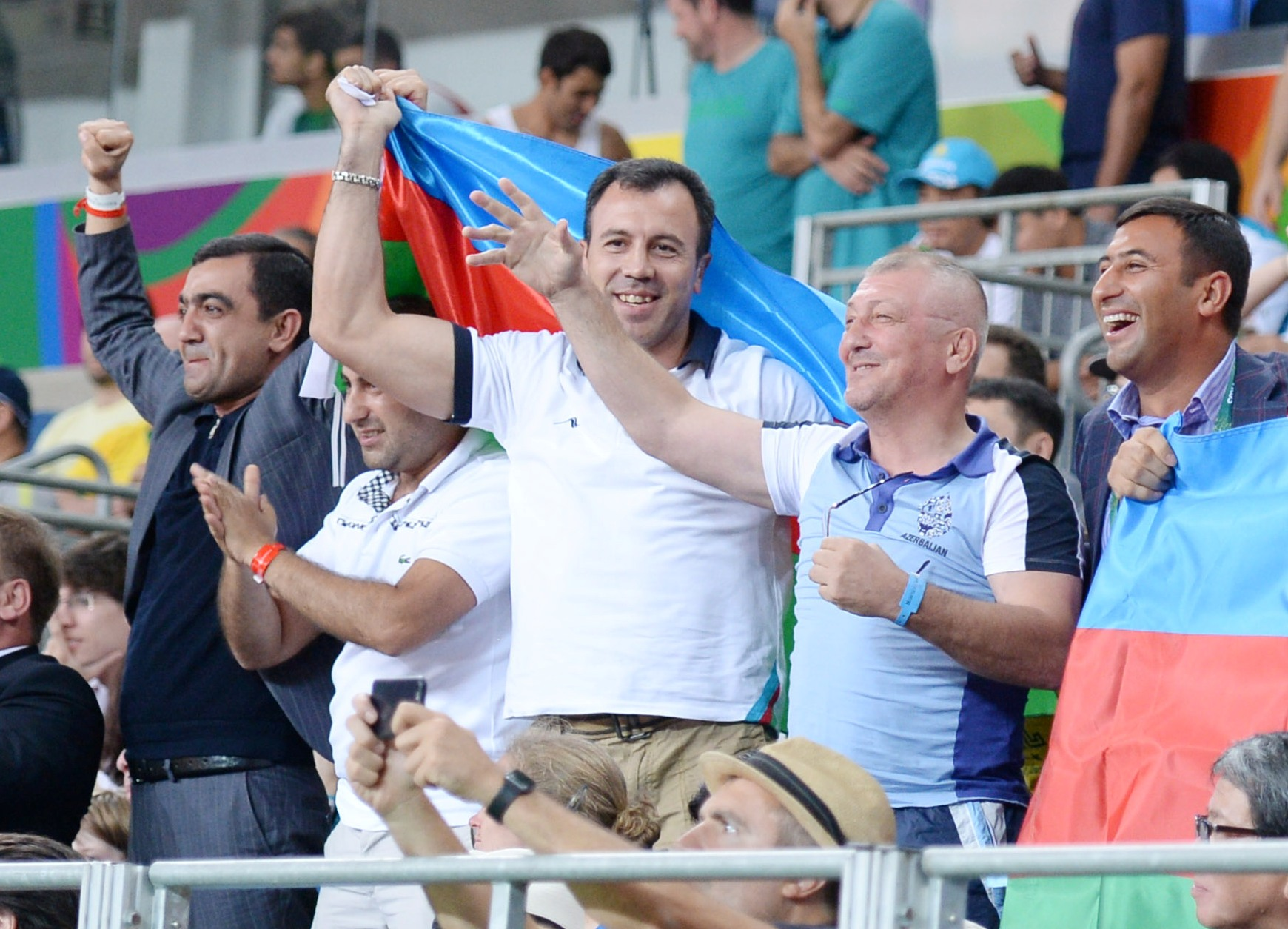 Judo at the 2016 Summer Olympics, Safarov vs Kitadai